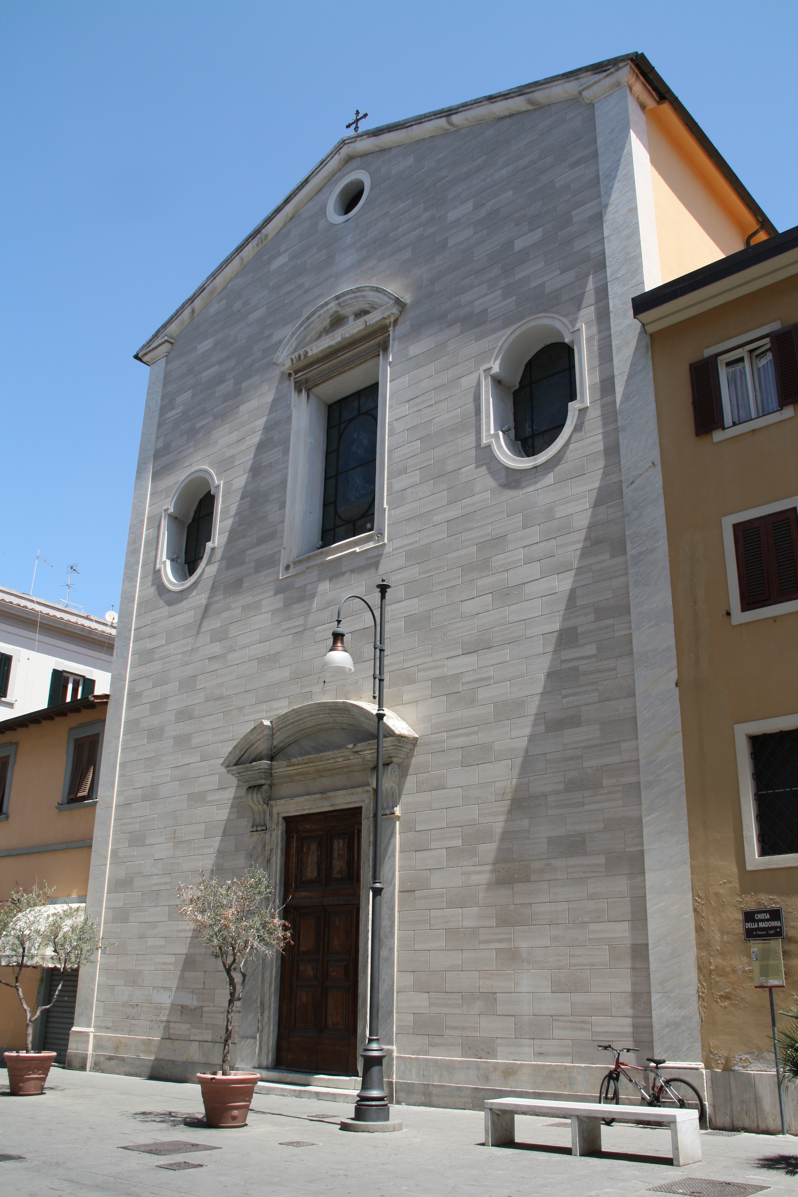 Italy, Livorno. The Church of the Madonna.